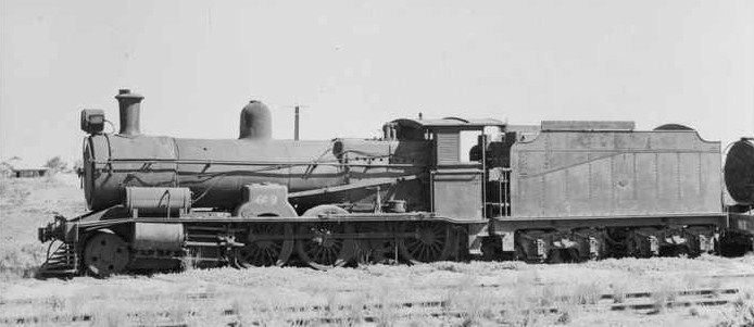 Portrait of a Commonwealth Railways G class tender locomotive, no. G9, probably at Port Augusta, South Australia. The locomotive was built by Baldwin Locomotive Works in Philadelphia, USA. It entered service in July 1914, was allocated to the Port Augusta Division, and was officially withdrawn in January 1952.This is one of a number of images in the collection of the State Library of South Australia depicting Commonwealth Railways locomotives said to have been taken in around 1951, the year the new Commonwealth Railways GM class diesel-electric locomotives began to replace the CR's remaining steam locomotive fleet on the Trans-Australia Railway.Some of the information provided here about the image is obtained from Fluck, Ronald E; Marshall, Barry; Wilson, John (1996). Locomotives and Railcars of the Commonwealth Railways. Welland, SA: Gresley Publishing, p. 29. ISBN 0959969039.